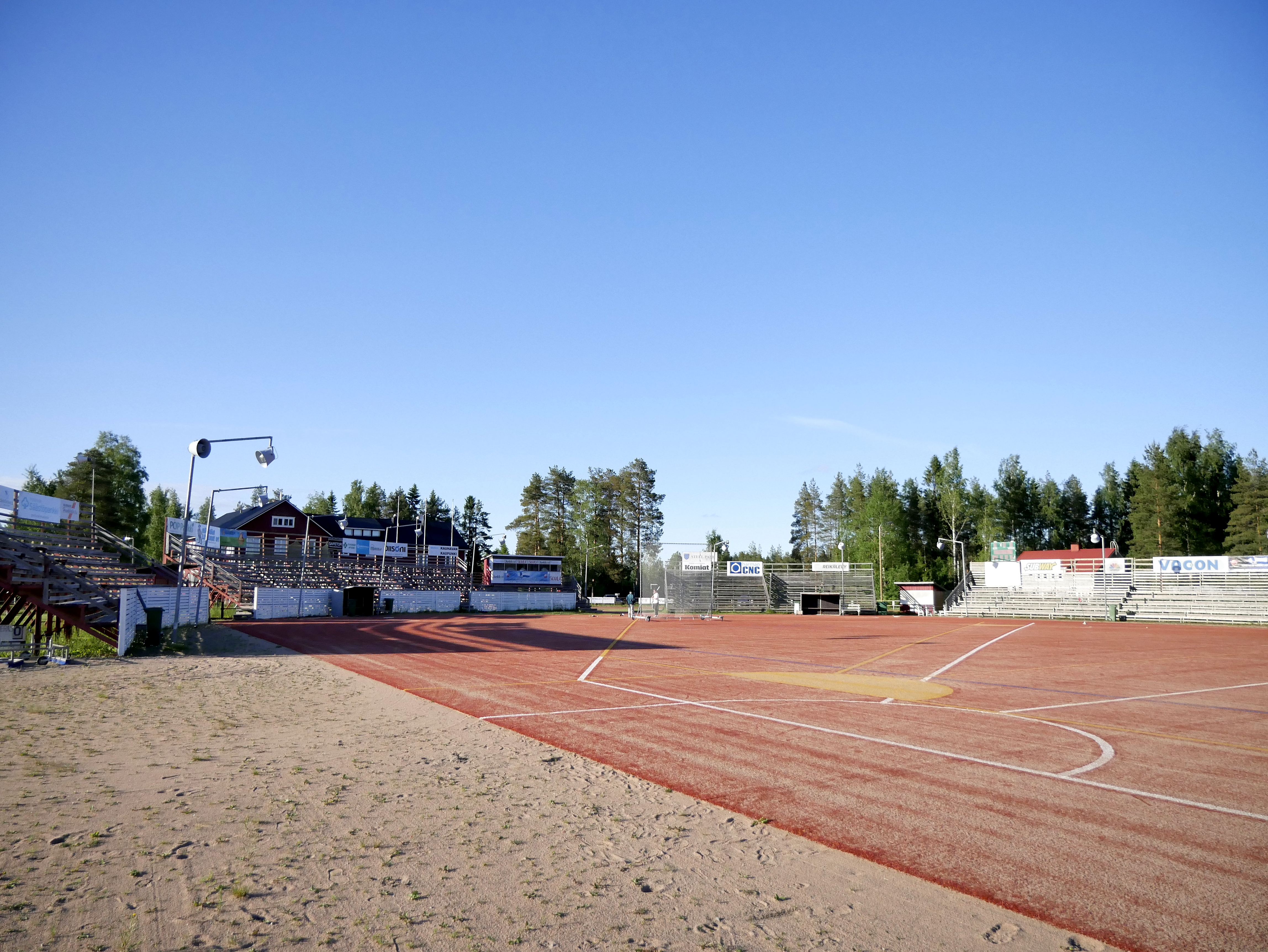 Kiistola pesäpallo stadium, Ylihärmä.